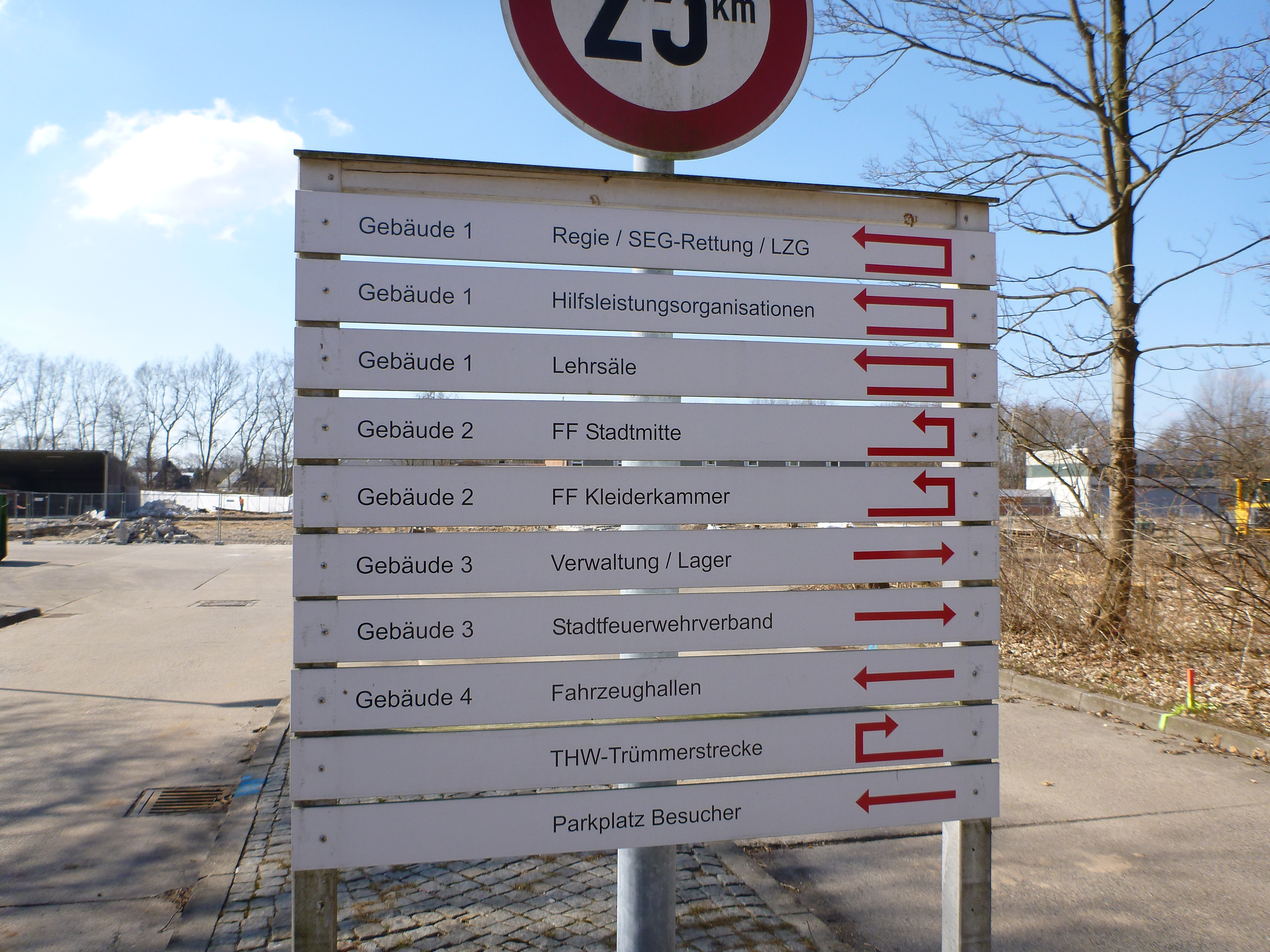 Streetsigns in the civil protection centrum in the former military base Hindenburgkaserne in Neumünster